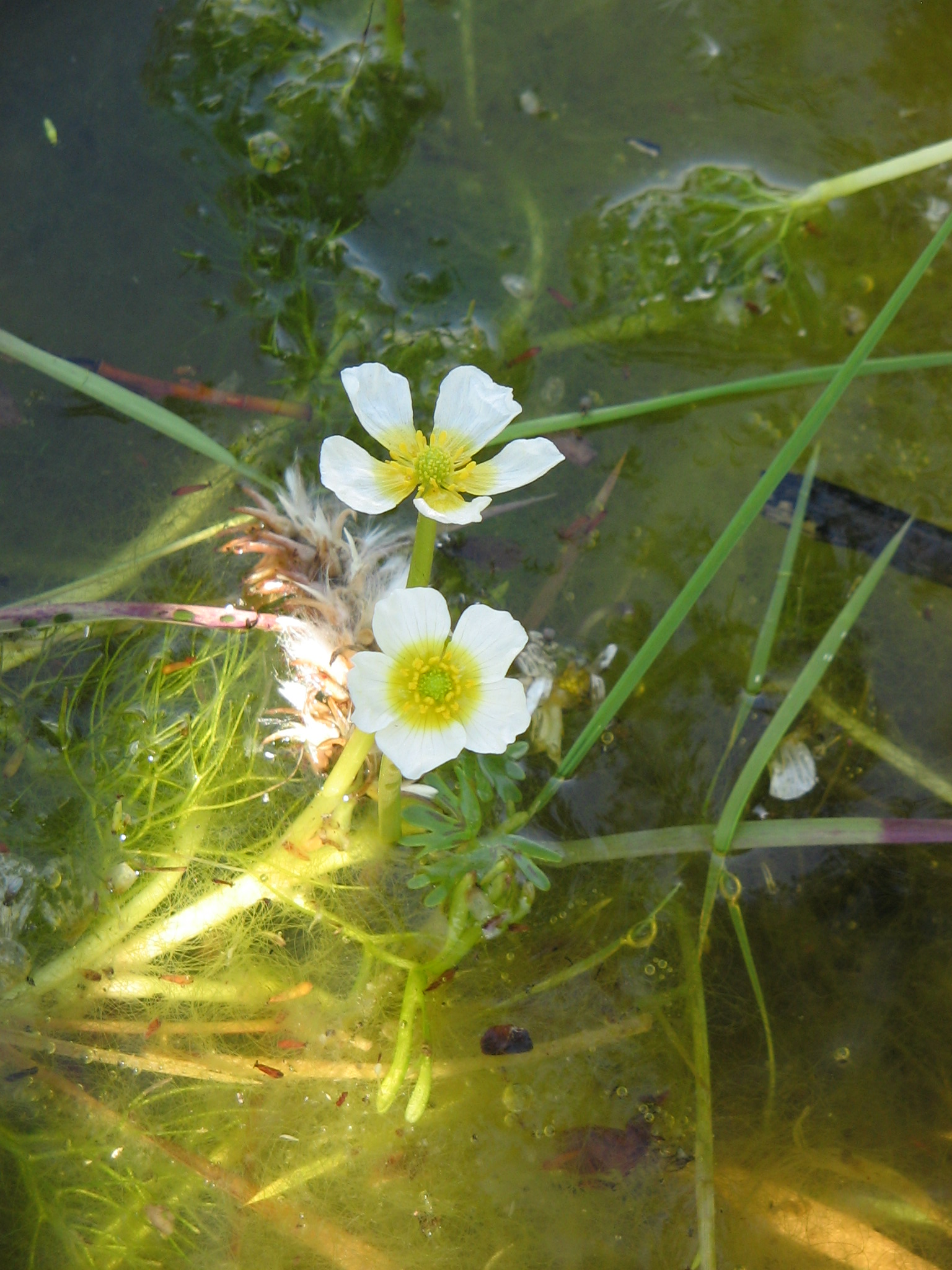 Ranunculus aquatilis